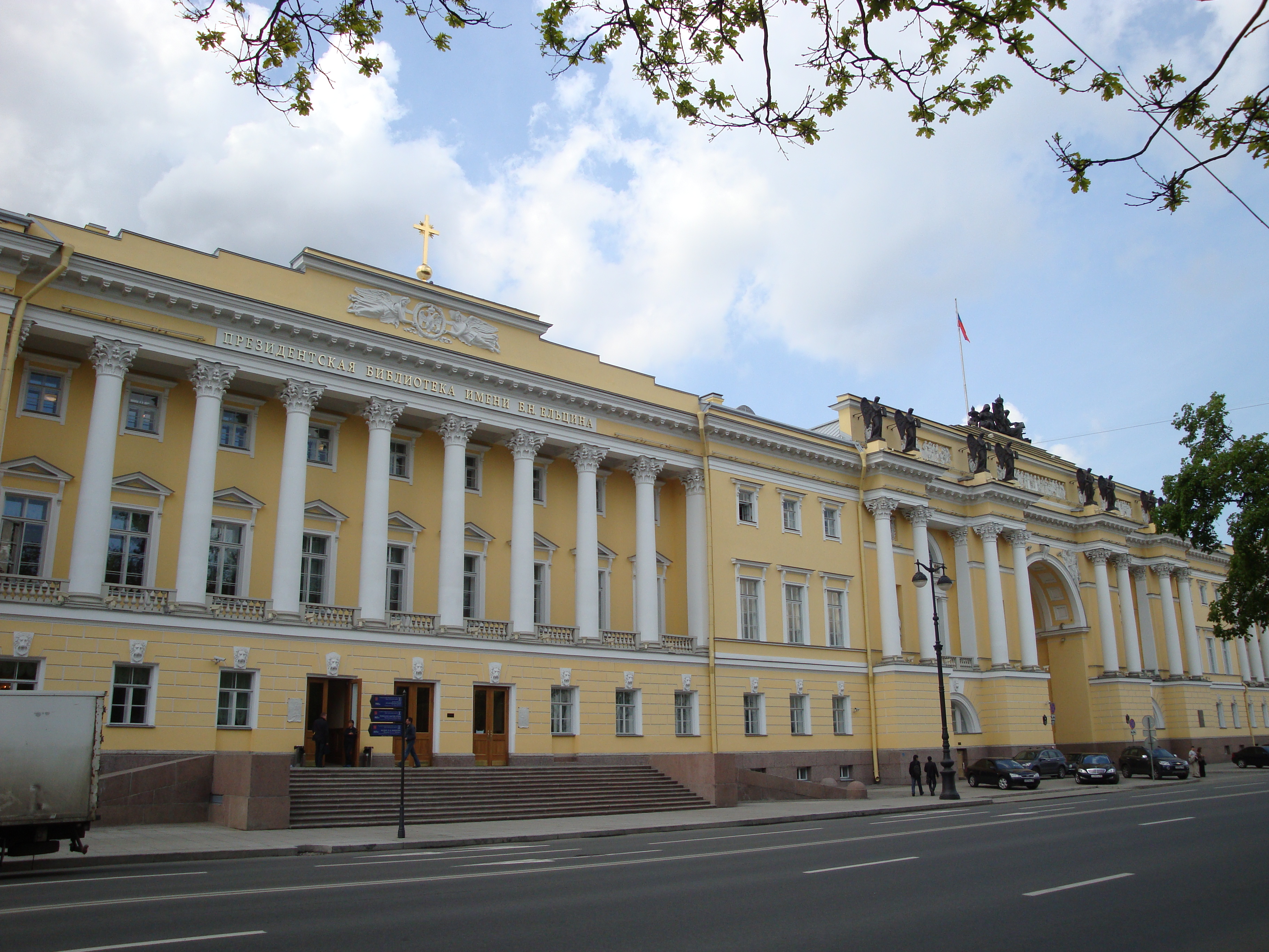 Boris Yeltsin Presidential Library, main entrance. Former Senat and Synod building of Russian Empire